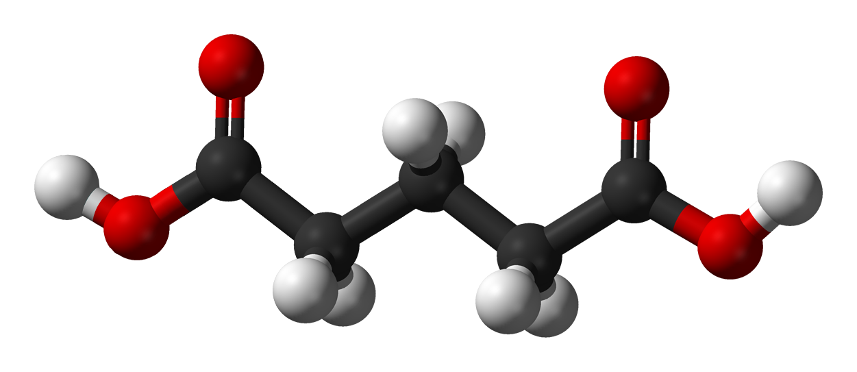 Ball and stick model of the glutaric acid molecule.